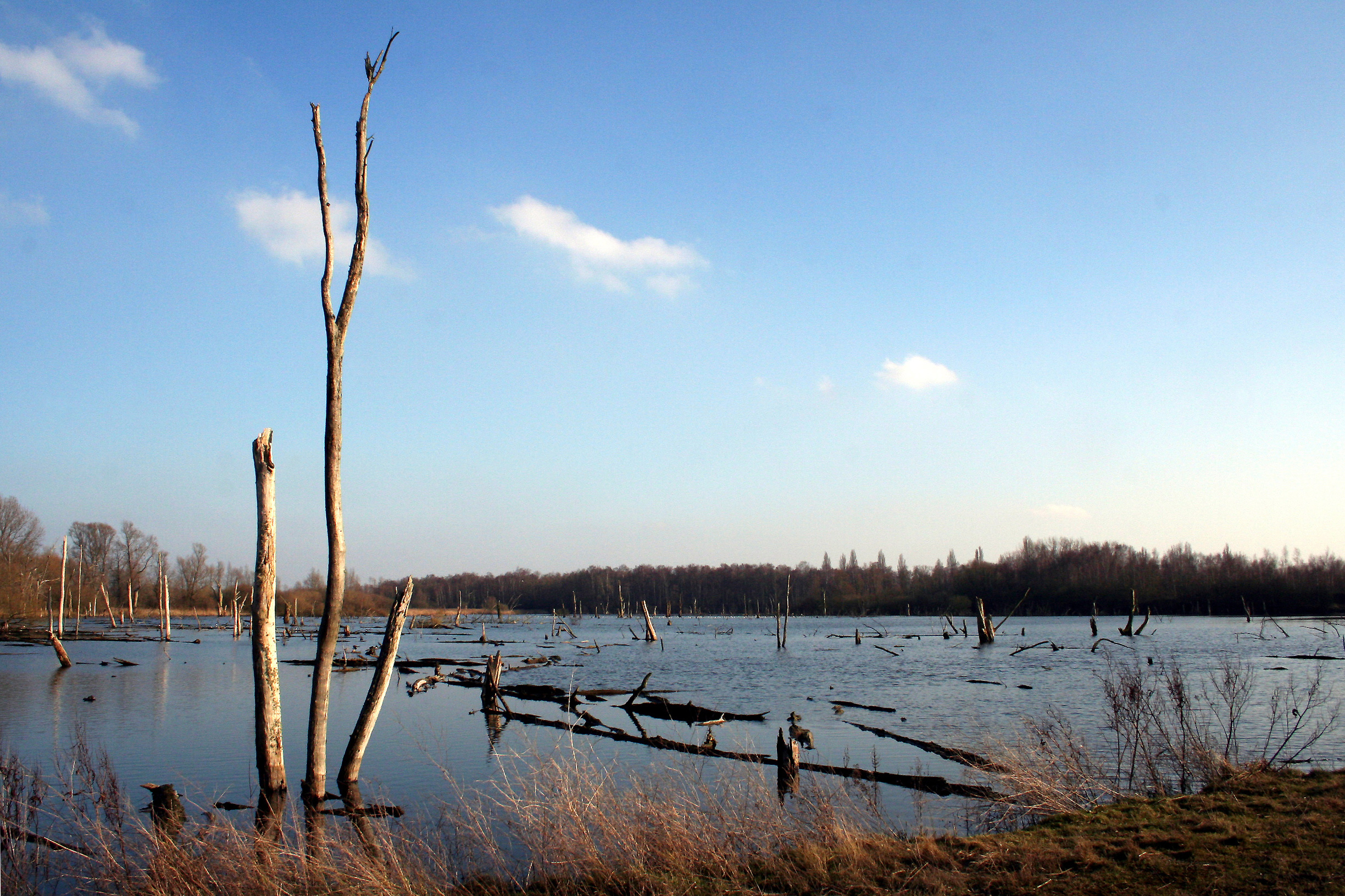 Hensies (Bèlgium), the Van Gheyt pond. Walon: Insîye (Bèljike), li vèvî Van Gheyt.